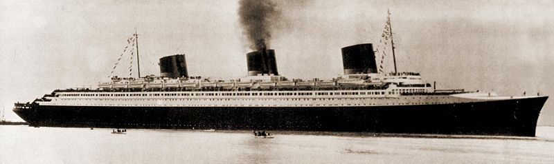 Photograph of the SS Normandie